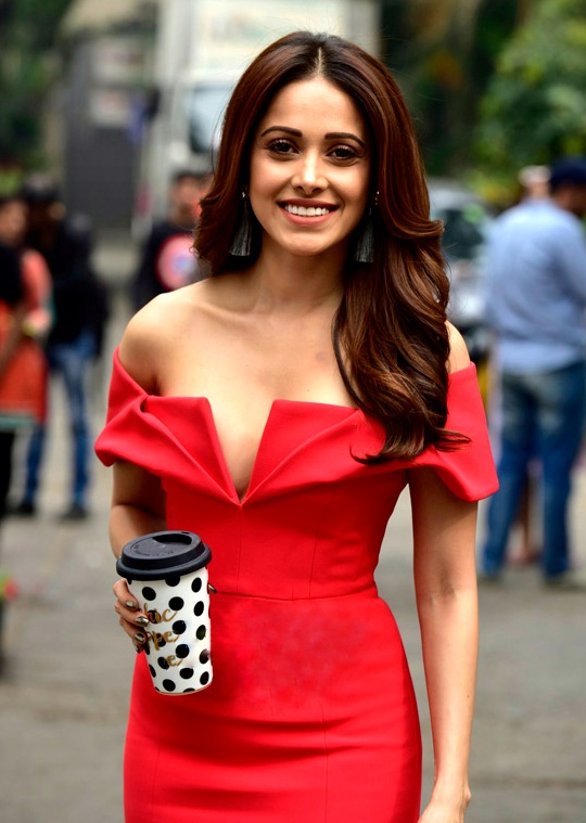 Nushrat Bharucha on the sets of India's Next Superstars.